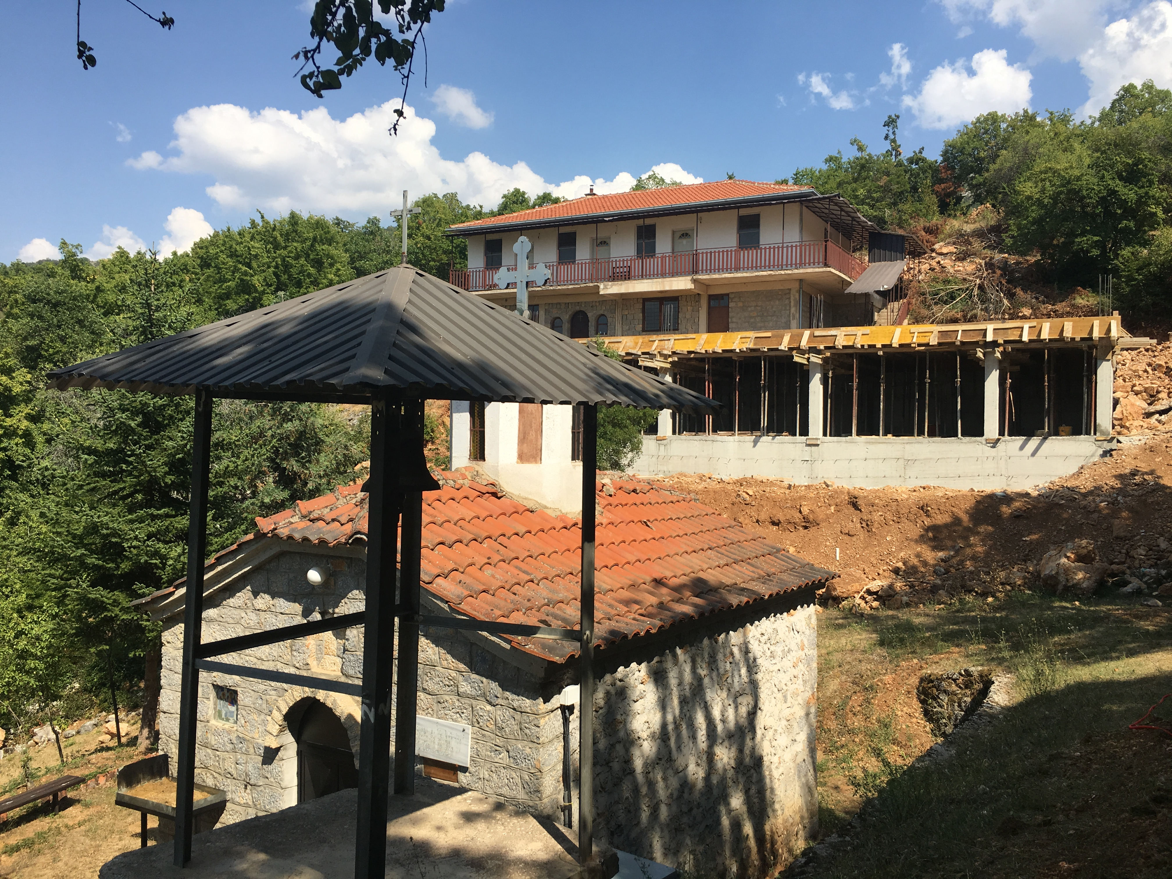 Velestovo Monastery